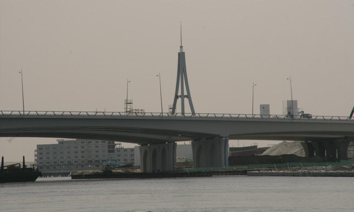 This is a photo showing the construction of Business Bay Crossing over Dubai Creek in Dubai, United Arab Emirates on 7 March 2007.